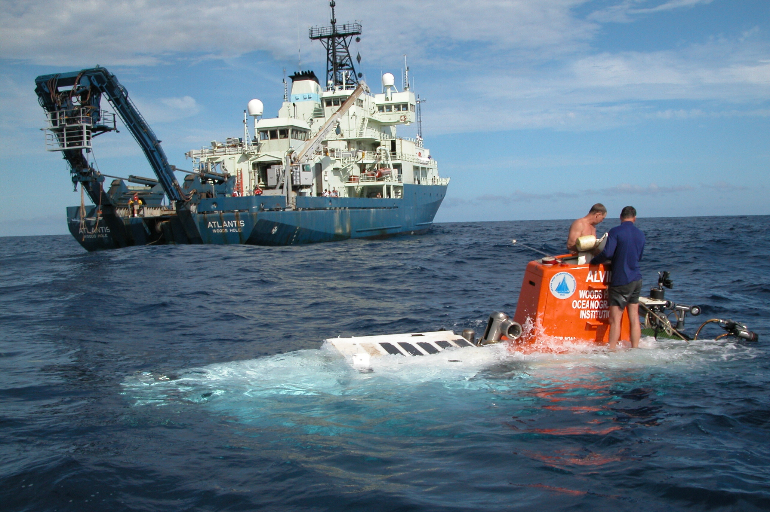 Mountains in the Sea Expedition 2004. Swimmers Mark Spear and Carl Wood, recovering Alvin after dive #3902 on Manning Seamount. Image ID: expl1191, Voyage To Inner Space - Exploring the Seas With NOAA Collect